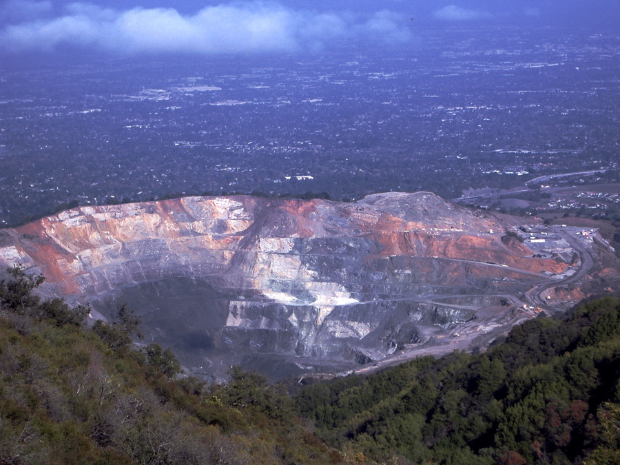 Hanson Permanente (formerly Kaiser Permanente) quarry in Silicon Valley